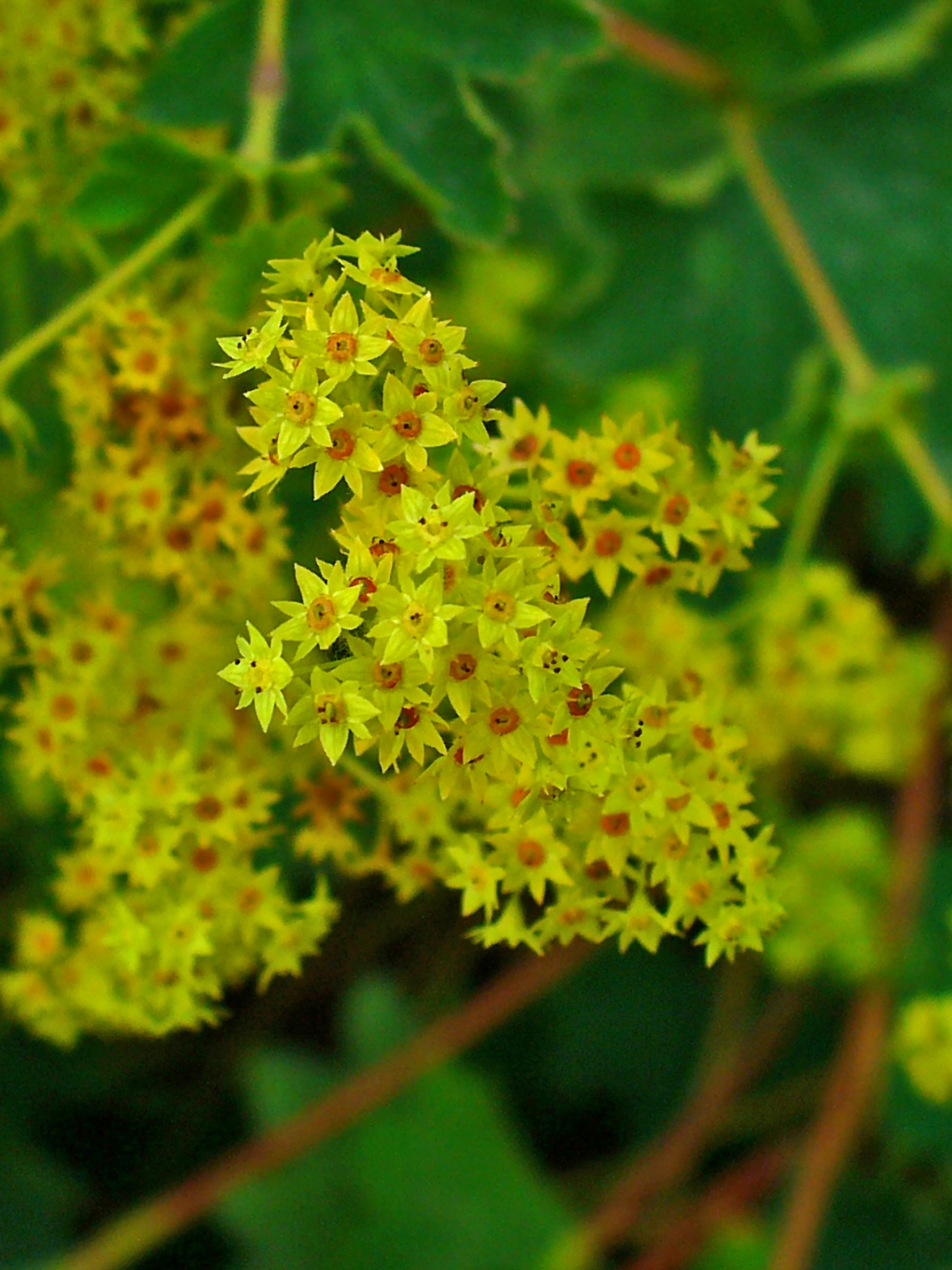 Yellow-Green Lady's Mantle, flowers. Botanical Garden KIT, Karlsruhe, Germany.